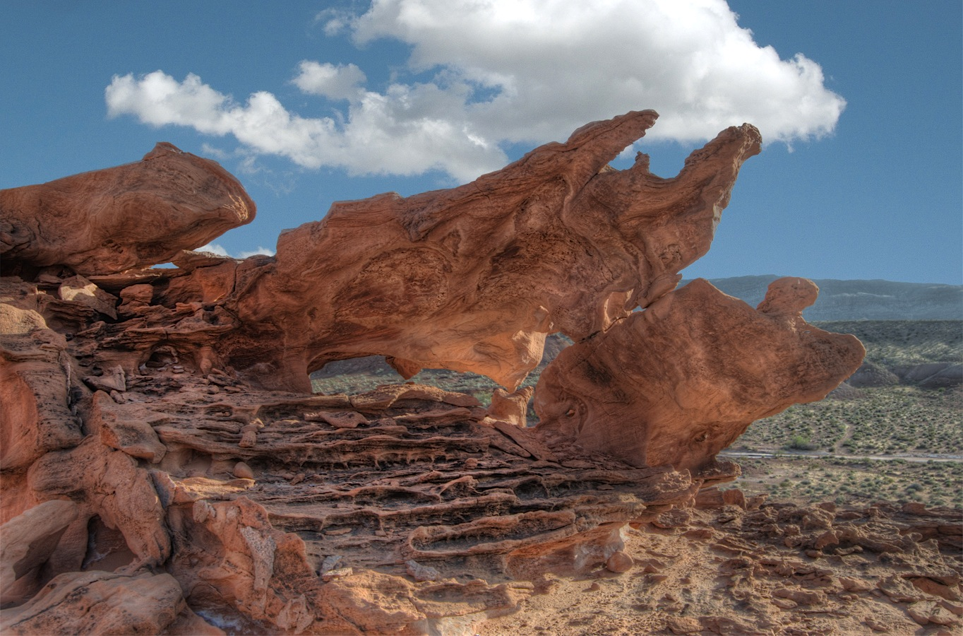 More from Little Finland, Nevada